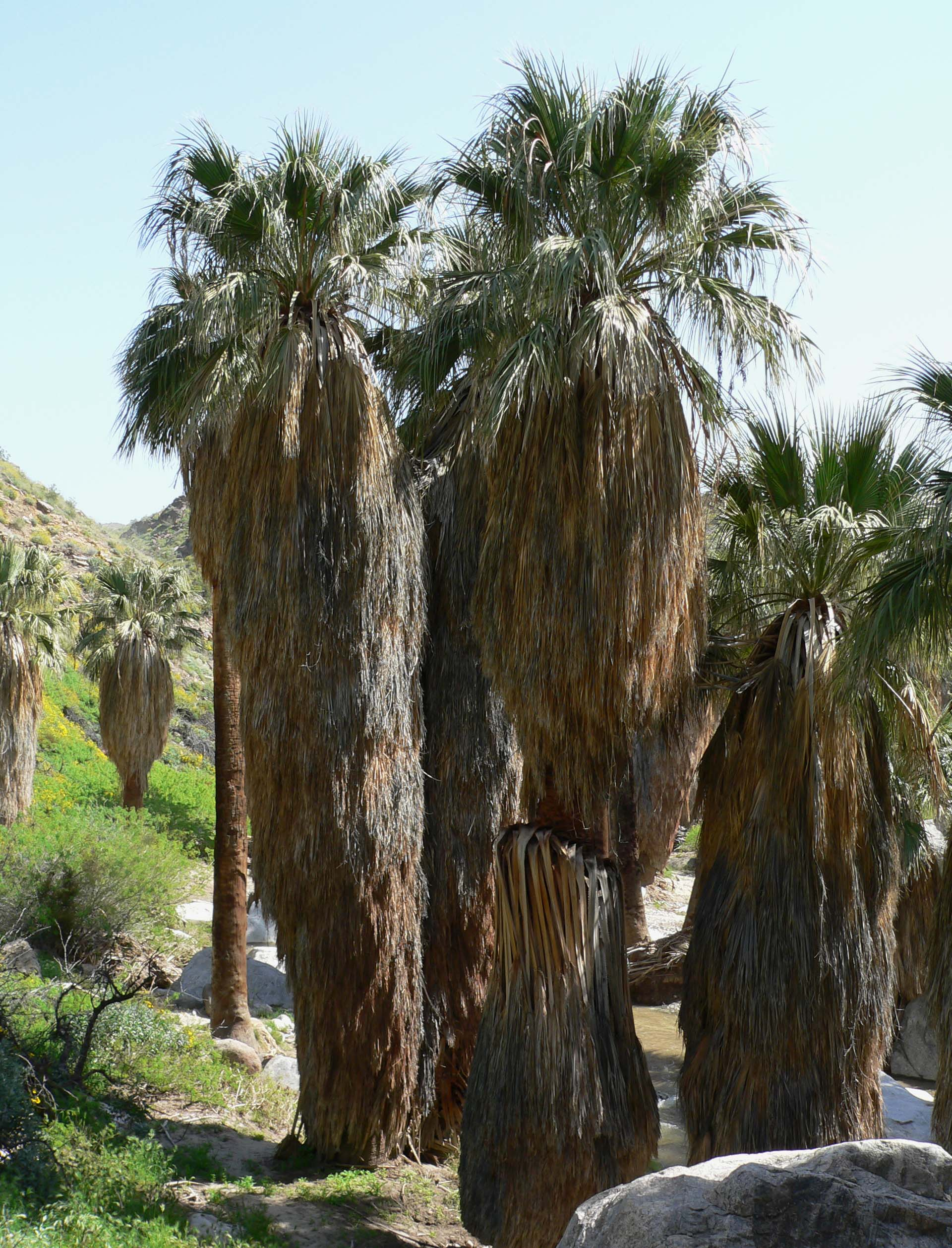 Photo of Washingtonia filifera (California fan palm) in Palm Canyon, California